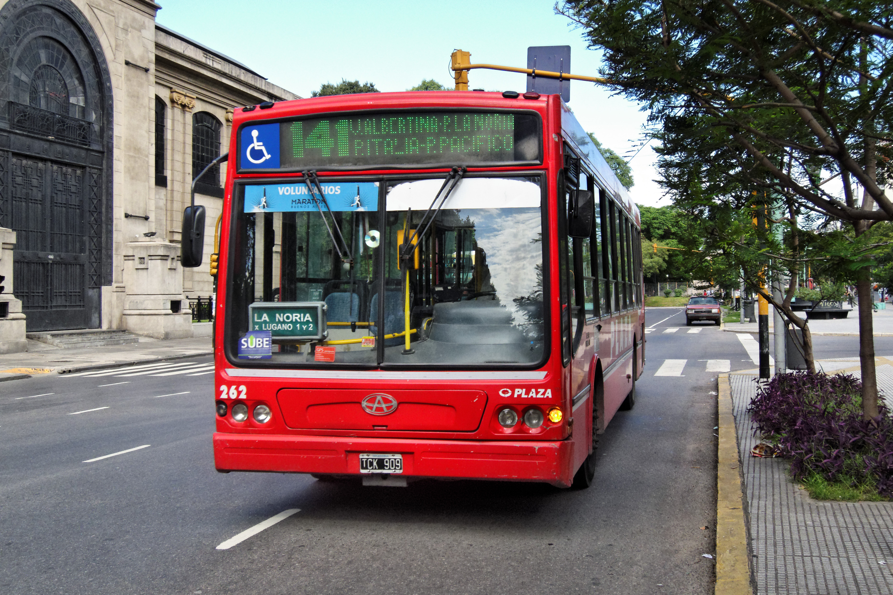 TATSA Puma-series bus (reg. TCK 909, #262) in Buenos Aires, Argentina. Colectivo, line 141, Mayo S.A.T.A. (Grupo PLAZA) operator.